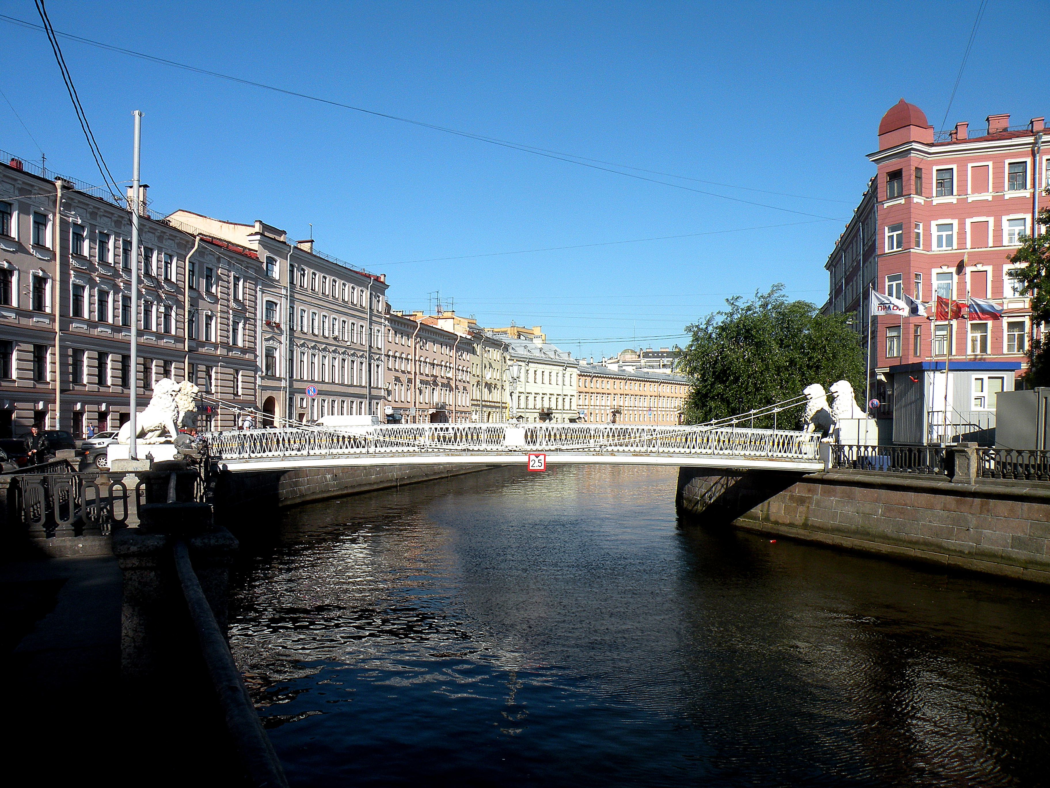 Lion_bridge.